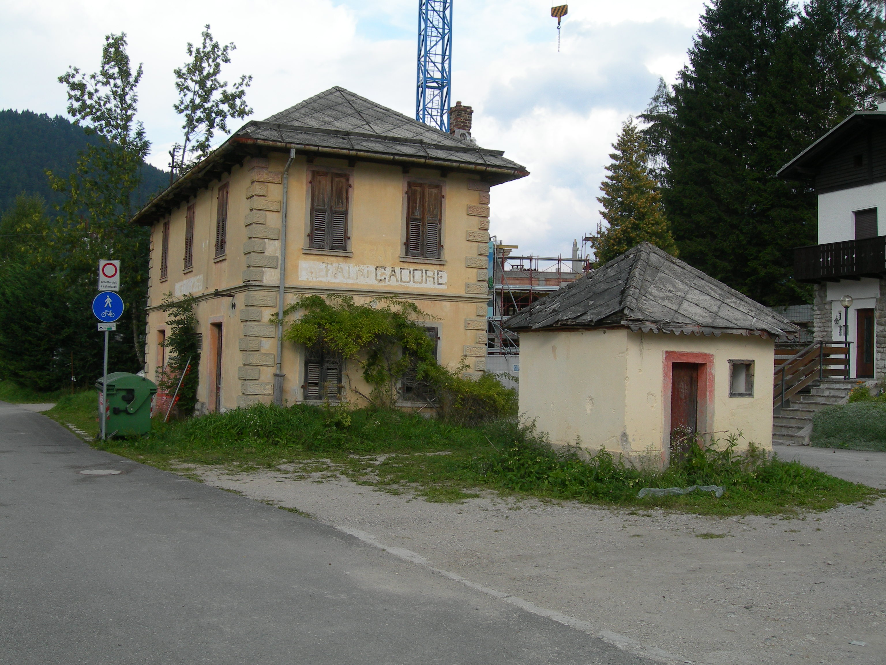 Tai di Cadore (Pieve di Cadore, Italy) old Ferrovia delle Dolomiti station.